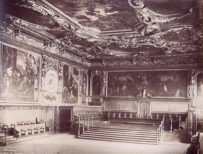 Carlo Naya (1822-1881) - "Venice. Hall of the Senate ". Catalogue # 238.